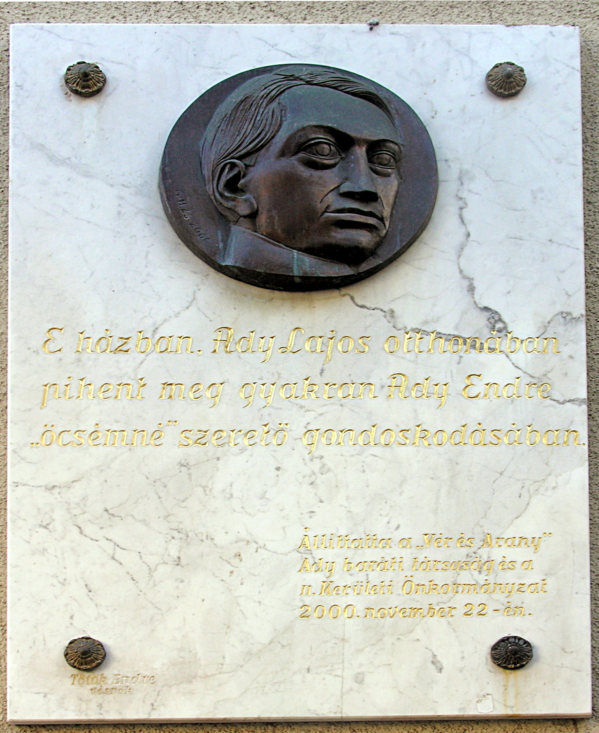 Commemorative plaque of Endre Ady (Budapest District II, Lövőház Street No 13)